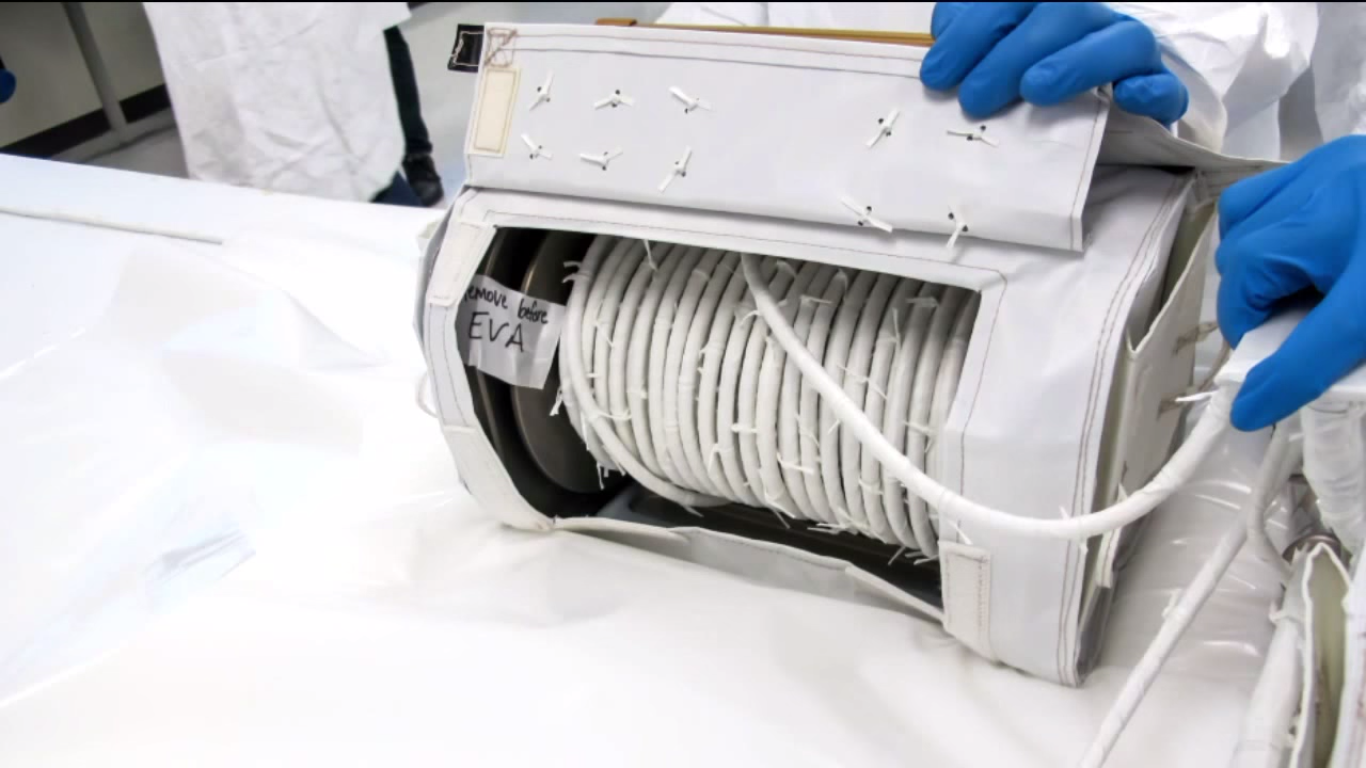 Cable Reel Bag showing 100ft of cable inside.